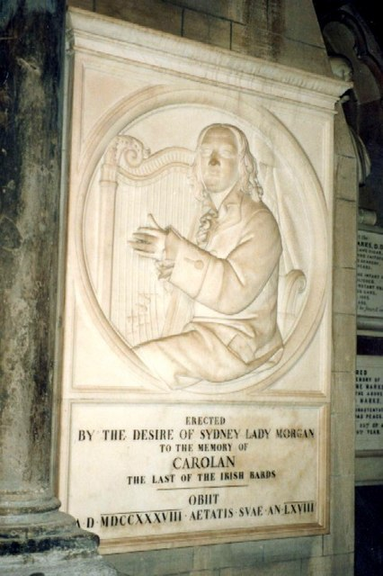 Carolan's memorial / Cloch cuimhneacháin Uí Chearbhalláin Toirdhealbhach Ó Cearbhalláin - Turlough O'Carolan - born in Co. Leitrim in 1670, was one of the last and most renowned of the traditional Irish itinerant harper-poets. He is buried at Kilronan, Co. Leitrim, but this monument in the national cathedral of St Patrick was placed by one of his aristocratic admirers.